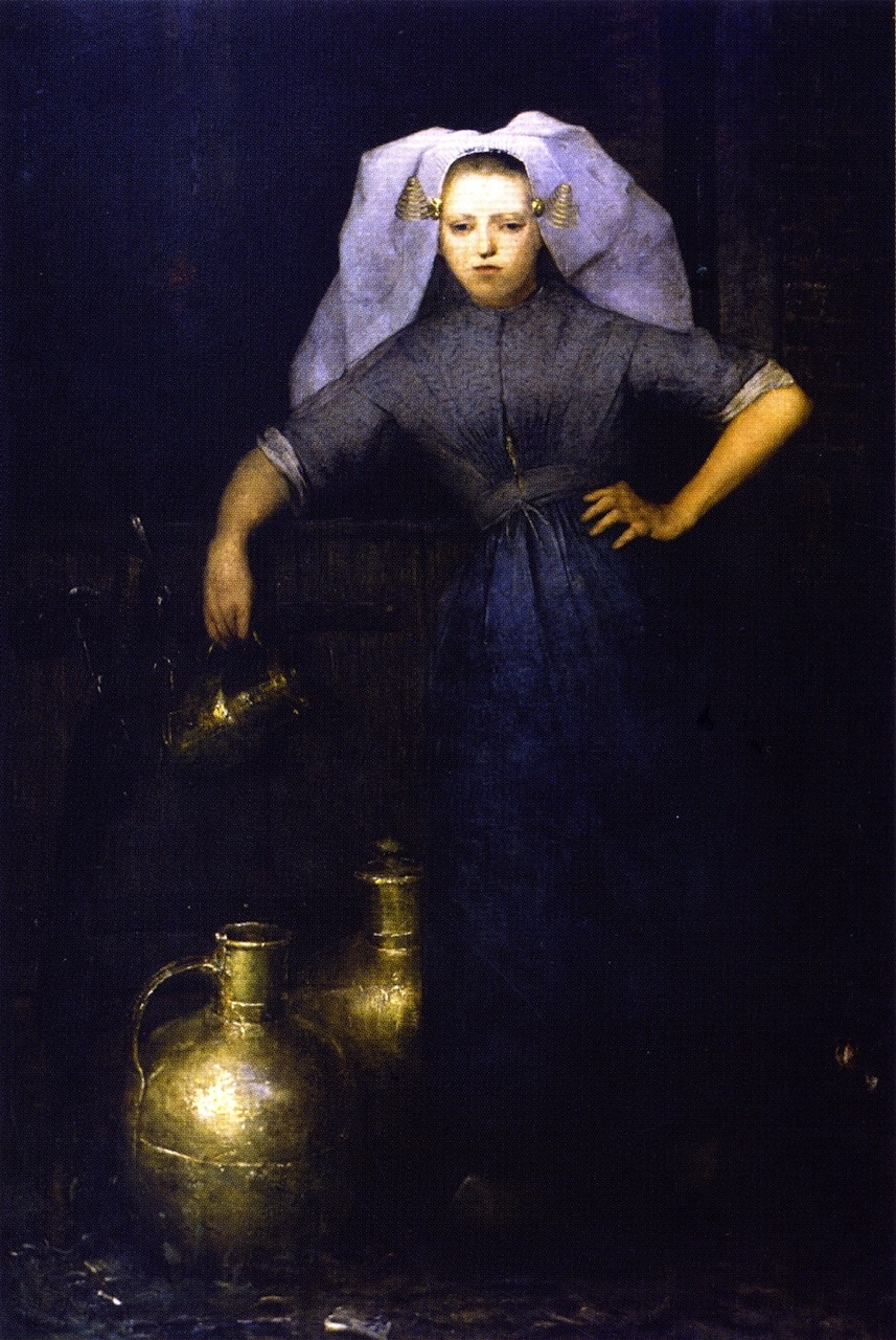 Milkmaid of Popindrecht (Papendrecht)